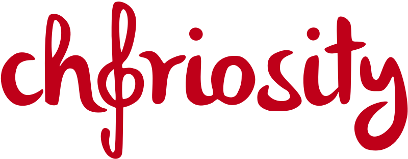 The Logo of Choriosity